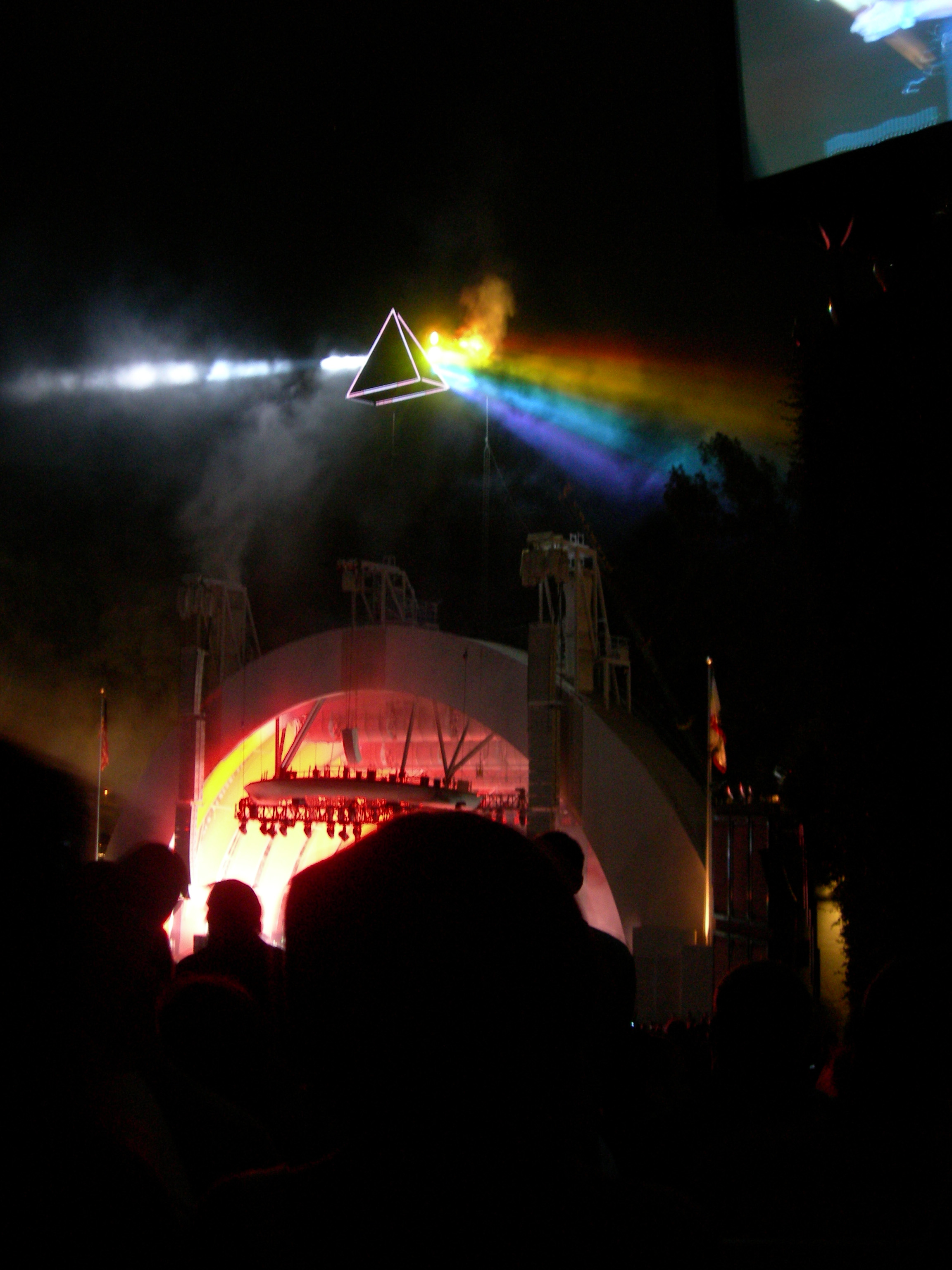 Roger Waters, Hollywood Bowl, "Any Colour You Like"